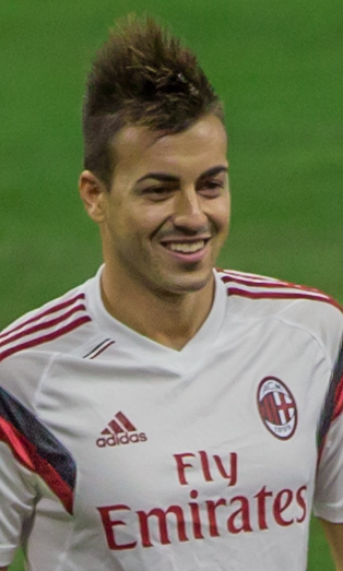 Stephan El Shaarawy playing for AC Milan in 2014